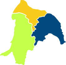 Districts of Hsinchu City： East District North District Xiangshan District